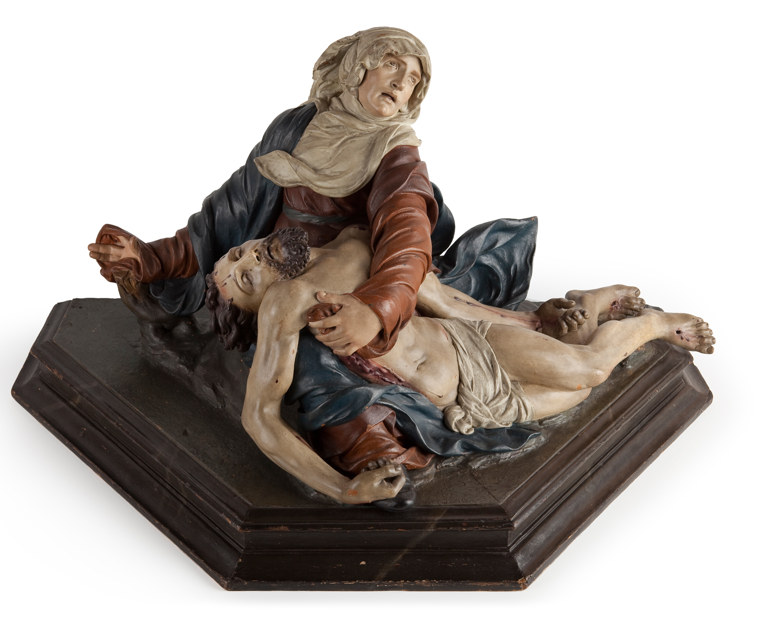 Pieta